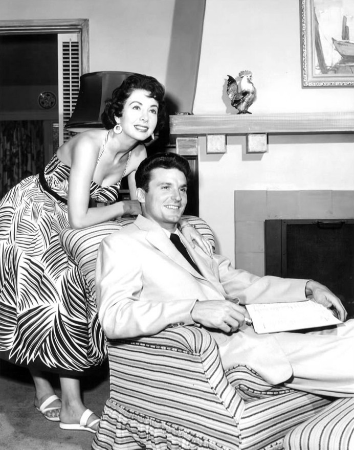 Photo of Keith Larsen and wife Susan Cummings at home in 1954. Larsen starred in a television series called The Hunter at that time.